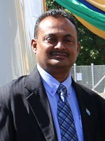 Today, the Fiji Electricity Authority received 7 specialised vehicles and over FJD 400,000 worth of specialised equipment from the Energy Networks Association of Australia to help replace damaged power poles and lines destroyed by Tropical Cyclone Winston. Acting Australian High Commissioner, Karinda D'Aloisio, handed over the vehicles and equipment to the Minister for Infrastructure and Transport, the Hon Parveen Bala, at the FEA Kinoya Depot this afternoon. As part of its support for Fiji post-TC Winston, the Australian Government funded shipping costs for the ENA donation